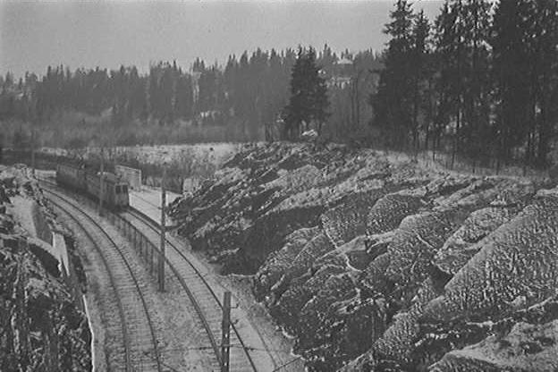 Jar tram stop, Kolsåsbanen / Lilleakerbanen, Bærum, Norway.